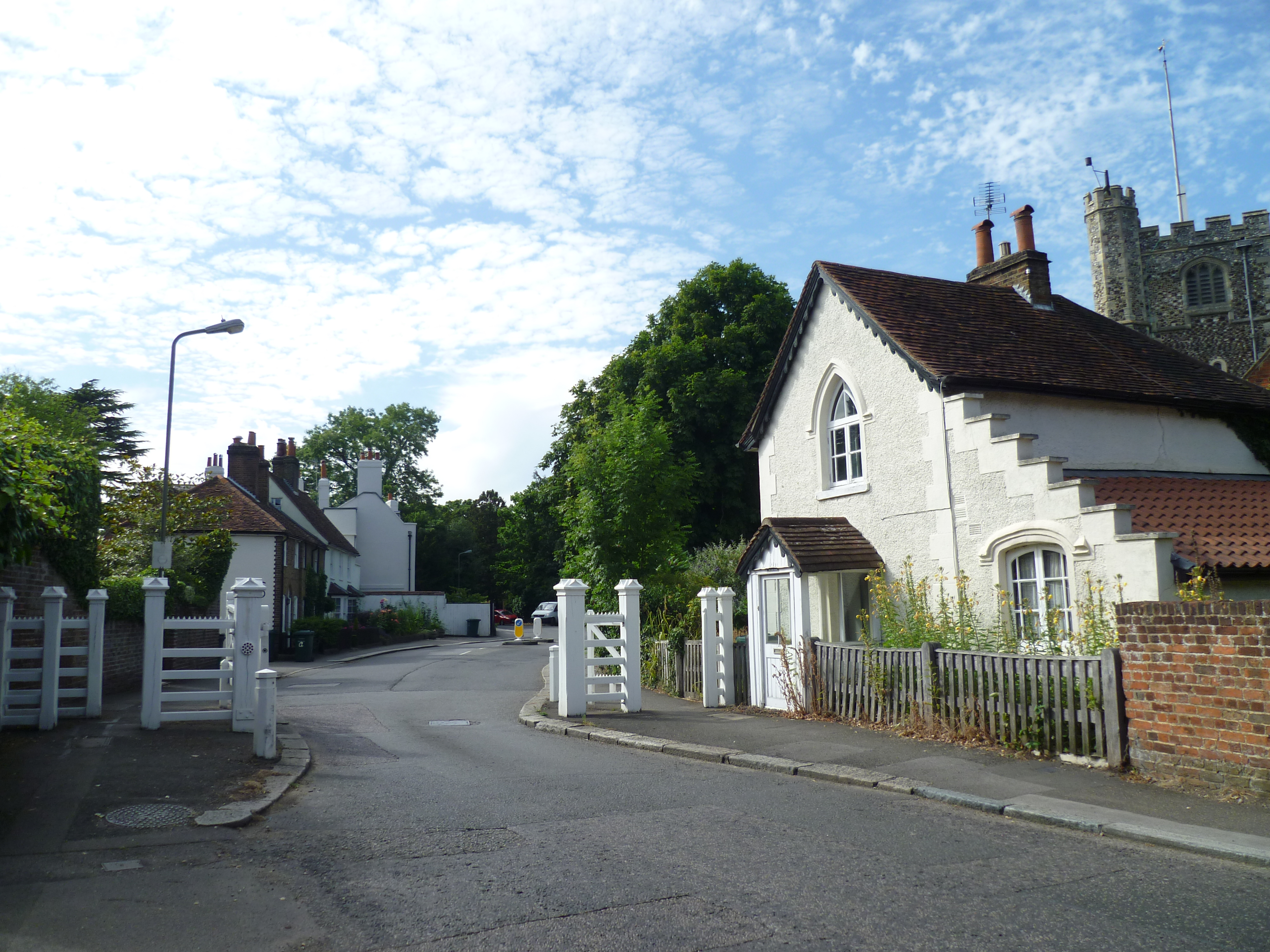 Monken Hadley gateway